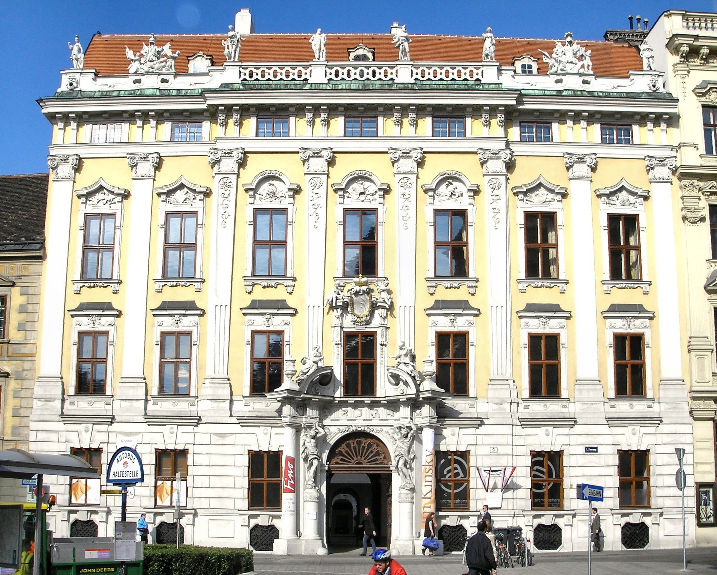 The Palais Kinsky at the Freyung in Vienna. Built in the baroque era for the noble Kinsky von Wichnitz und Tettau family.